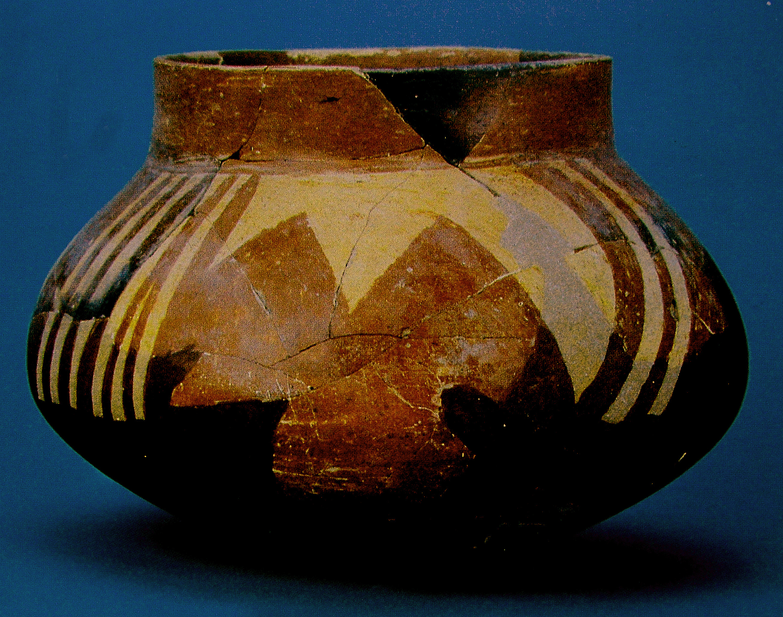 Colored ceramic bowl from Hacilar (Anatolian Civilizations Museum, Ankara). Neolithic, 6th millennium BC